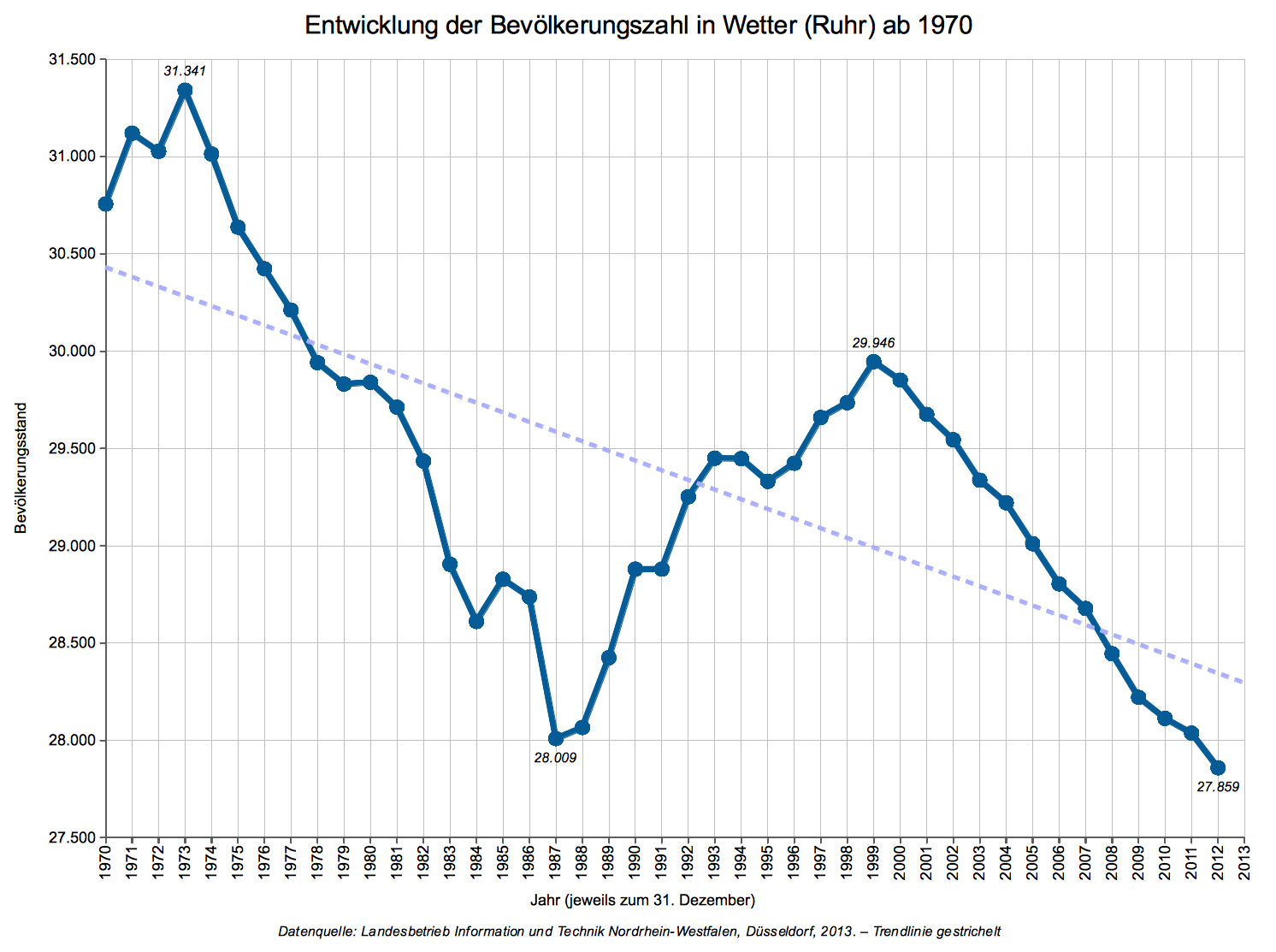 Population statistics for the German municipality Wetter (Ruhr) from 1970 to 2012